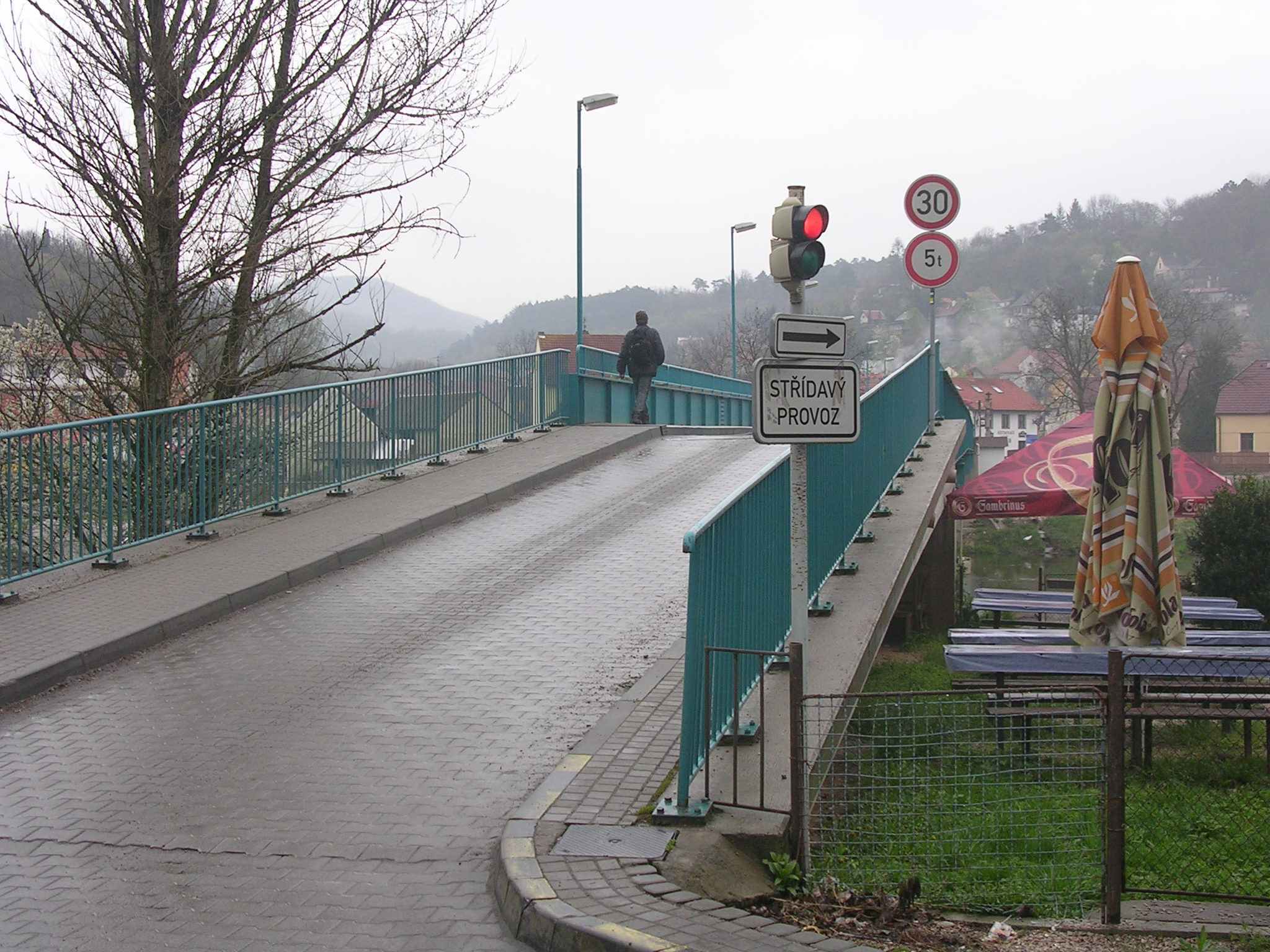 Bridge in Srbsko, Beroun District, the Czech Republic.